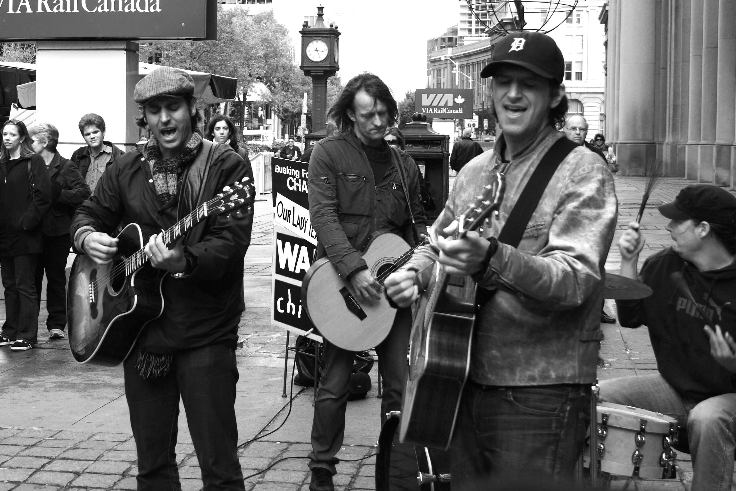 Our Lady Peace performing for War Child in October 2008.